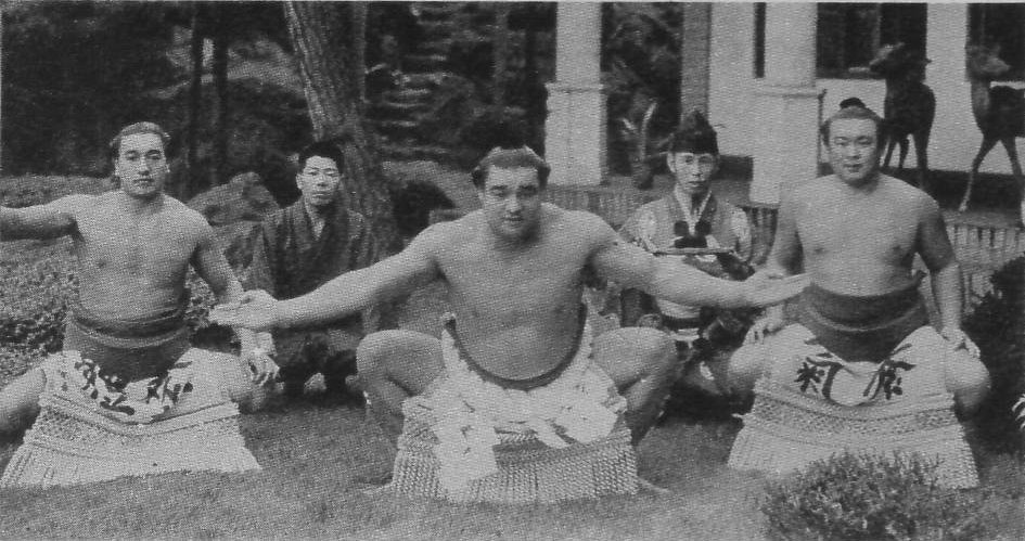 Haguroyama Masaji in Dohyo-iri, 1941?